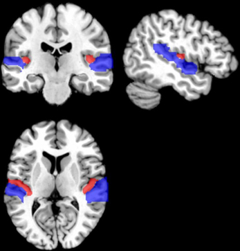 Schematic illustration of the primary auditory cortex (PAC) on a brain template. The PAC (red) occupies most of the Heschl's gyrus, which extends mediolaterally within the Sylvian fissure. PAC is surrounded by auditory association areas (blue) on the superior temporal gyrus.